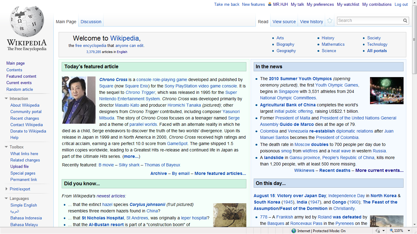 English Wikipedia as viewed on a widescreen monitor (1366x768 resolution), and rendered by Internet Explorer. Originally uploaded on the en.WP on August 15, 2010 by User:MR.HJH. Suitable for WikiCommons according to Fbot.